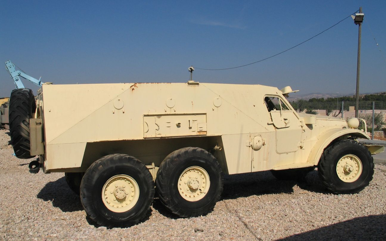 Description: BTR-152 APC in Yad la-Shiryon Museum, Israel. 2005. Source: Photo by me, User:Bukvoed